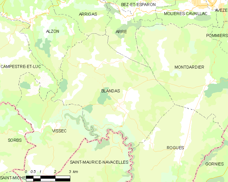 Map commune FR insee code 30040.png - Blandas